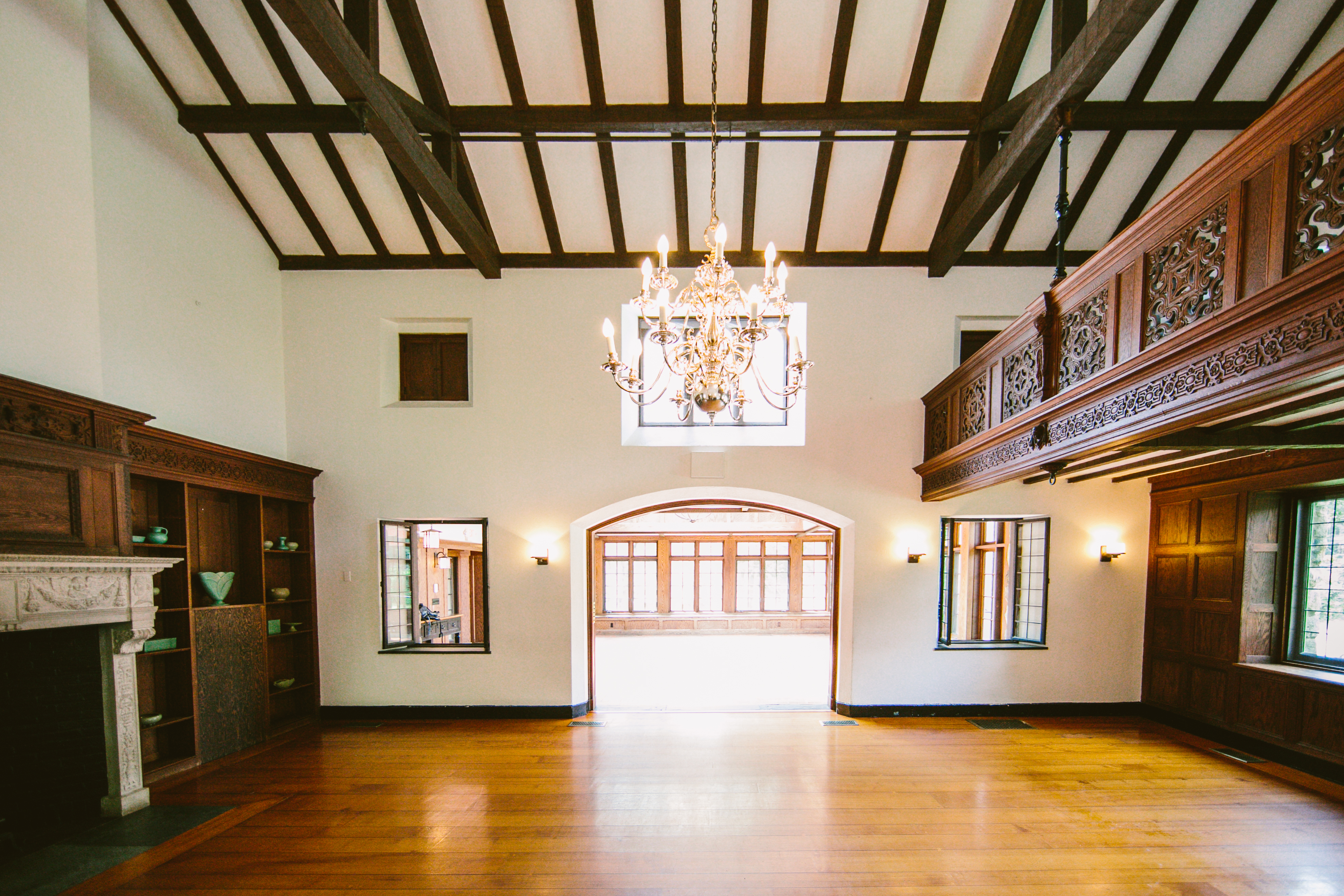 Ballroom at Willowdale looking toward the Conservatory